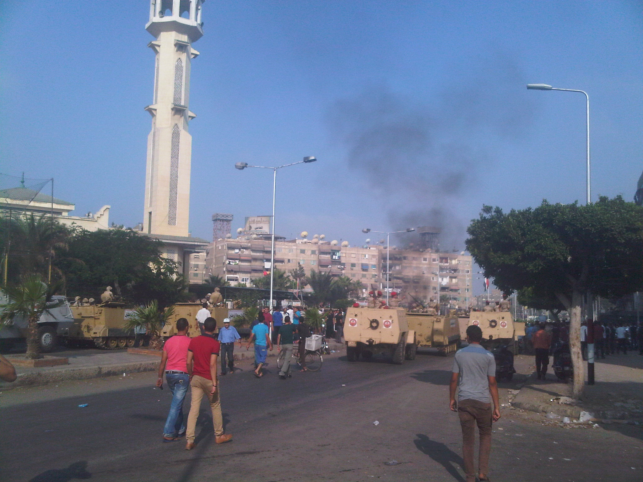 After burning the Muslim brotherhood stage in front of the mosque ad the army armors coming